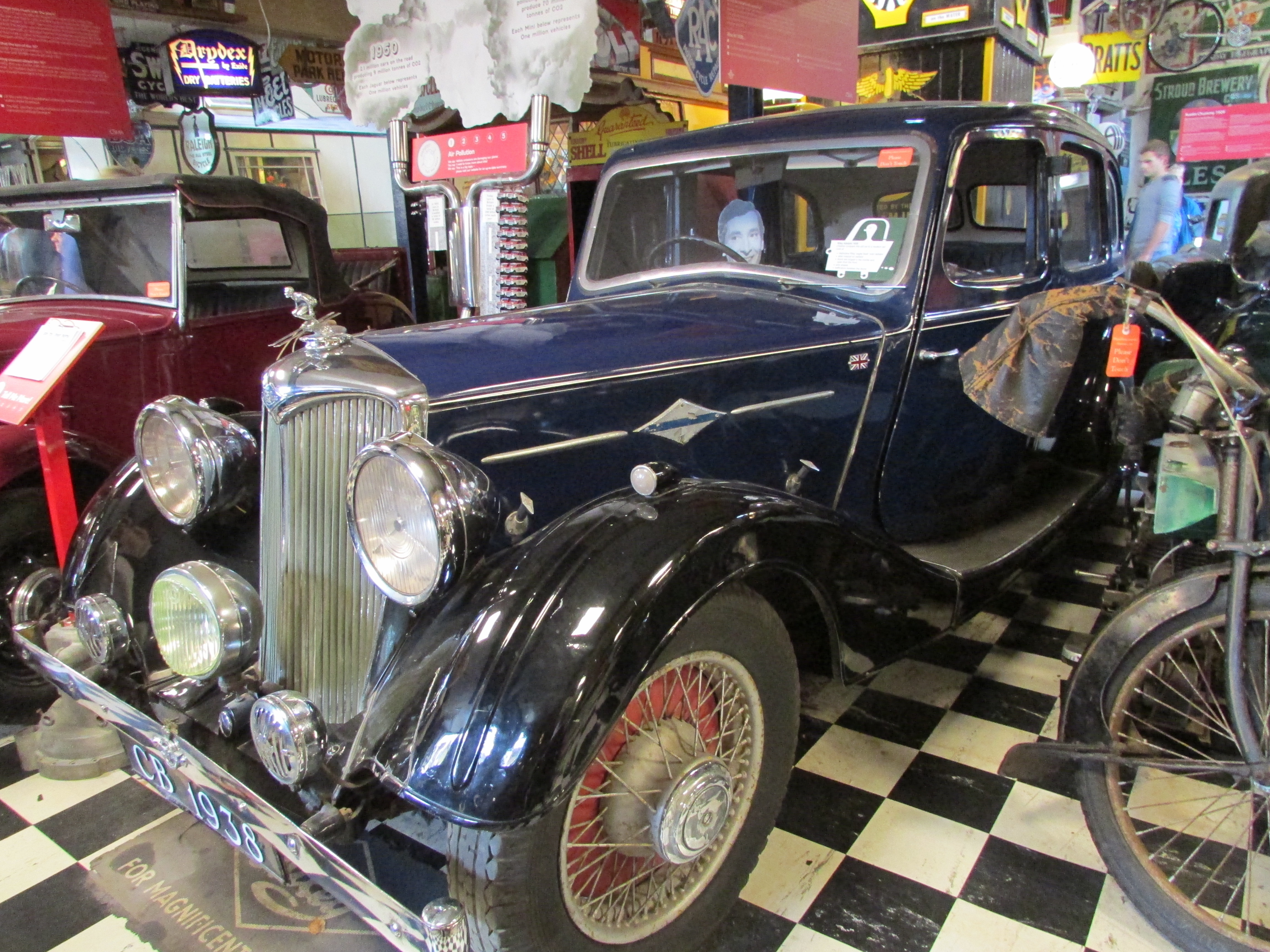 Riley 16hp Adelphi 6-light saloonCotswold Motoring Museum, Bourton-on-the-Water, Gloucestershire